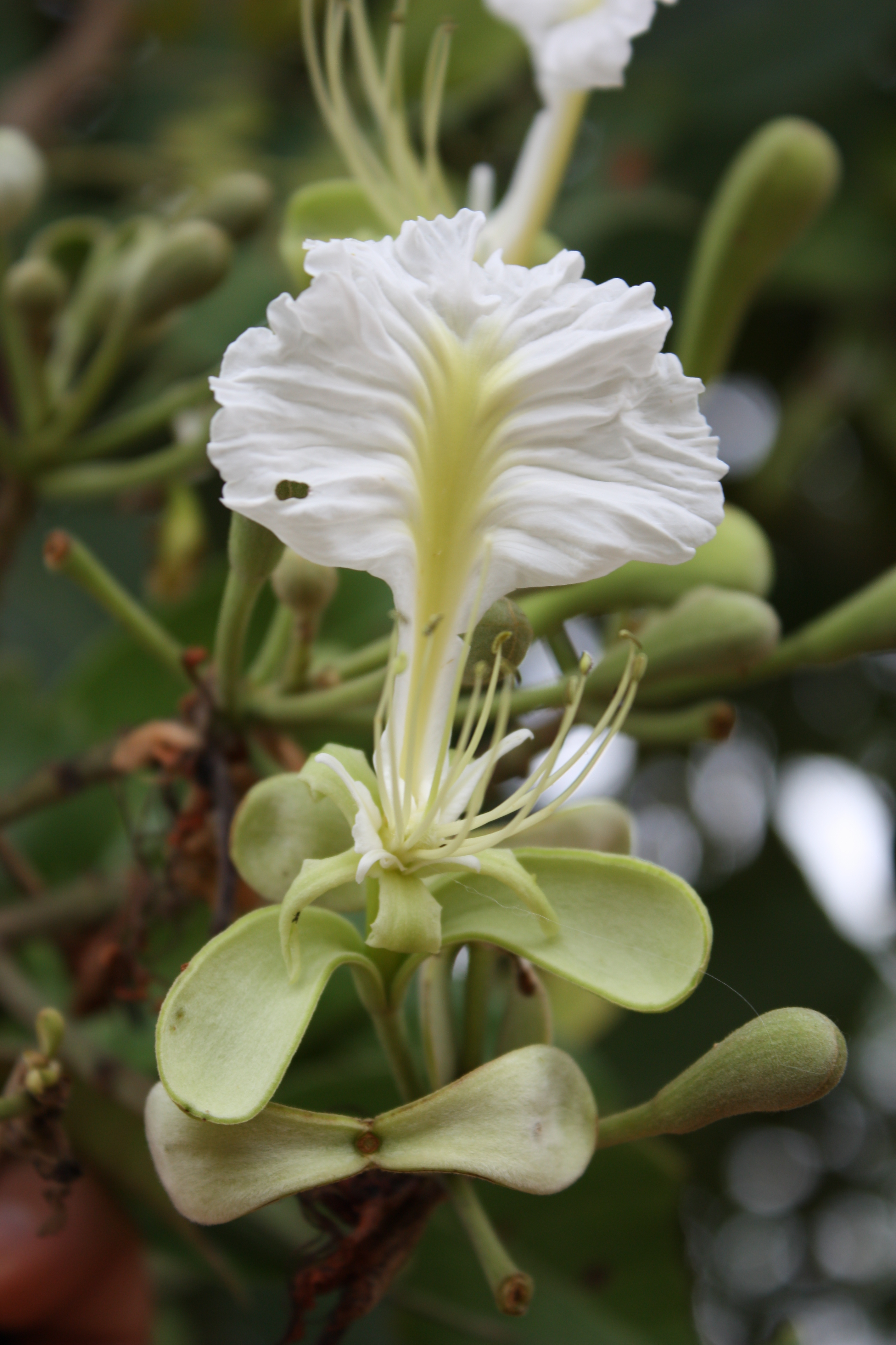 flower of Berlinia grandiflora, SW Burkina Faso